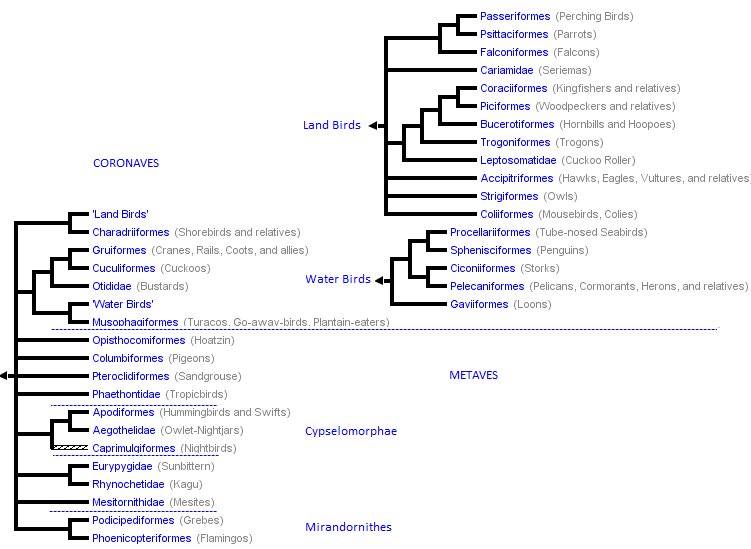 Cladogram of Neoaves, based on recent genetic research